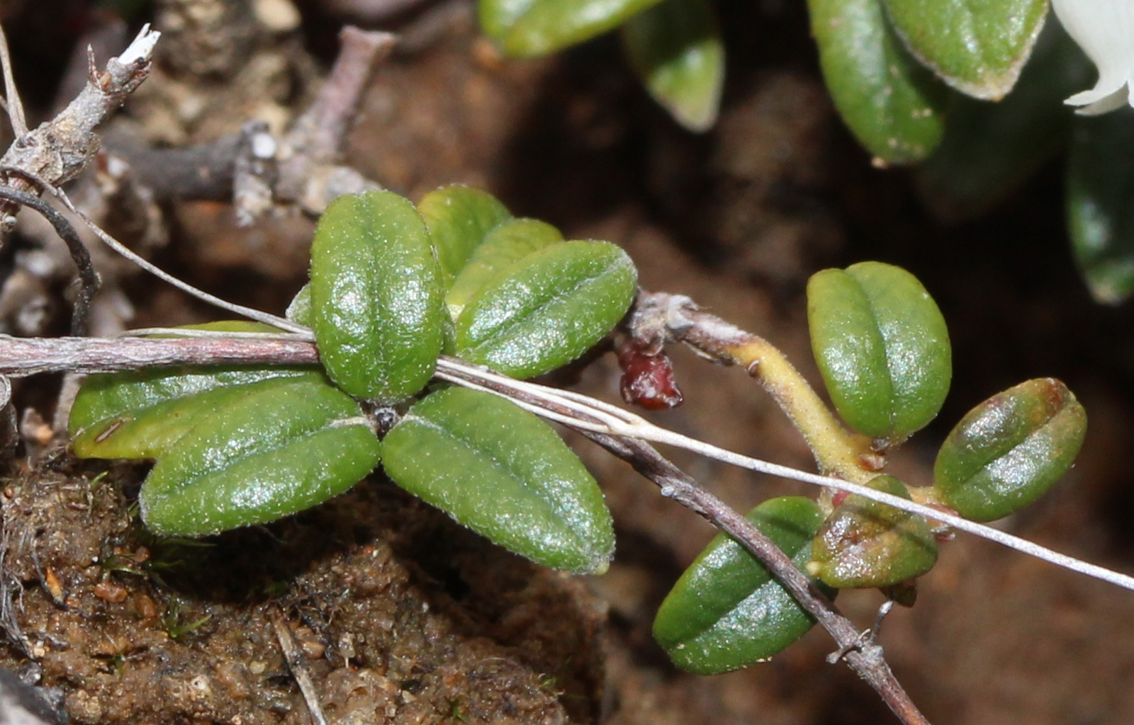 Leaves of Arcterica nana (Maxim.) Makino, in Mount Haku, Japan.